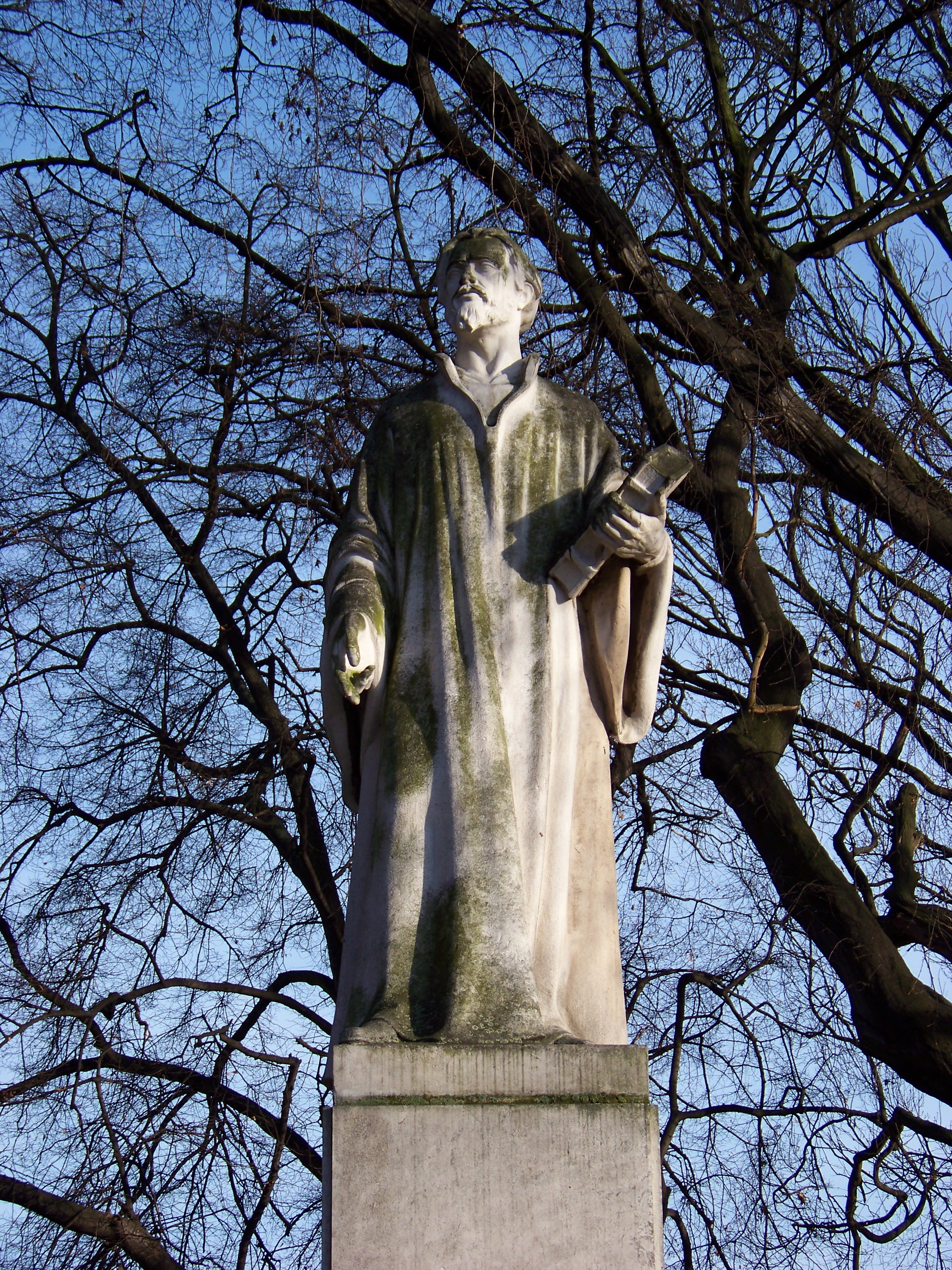 Nymburk, Nymburk District, Central Bohemian Region, the Czech Republic. Havlíčkova street, a monument to Jan Hus. - OpenStreetMap(Info)